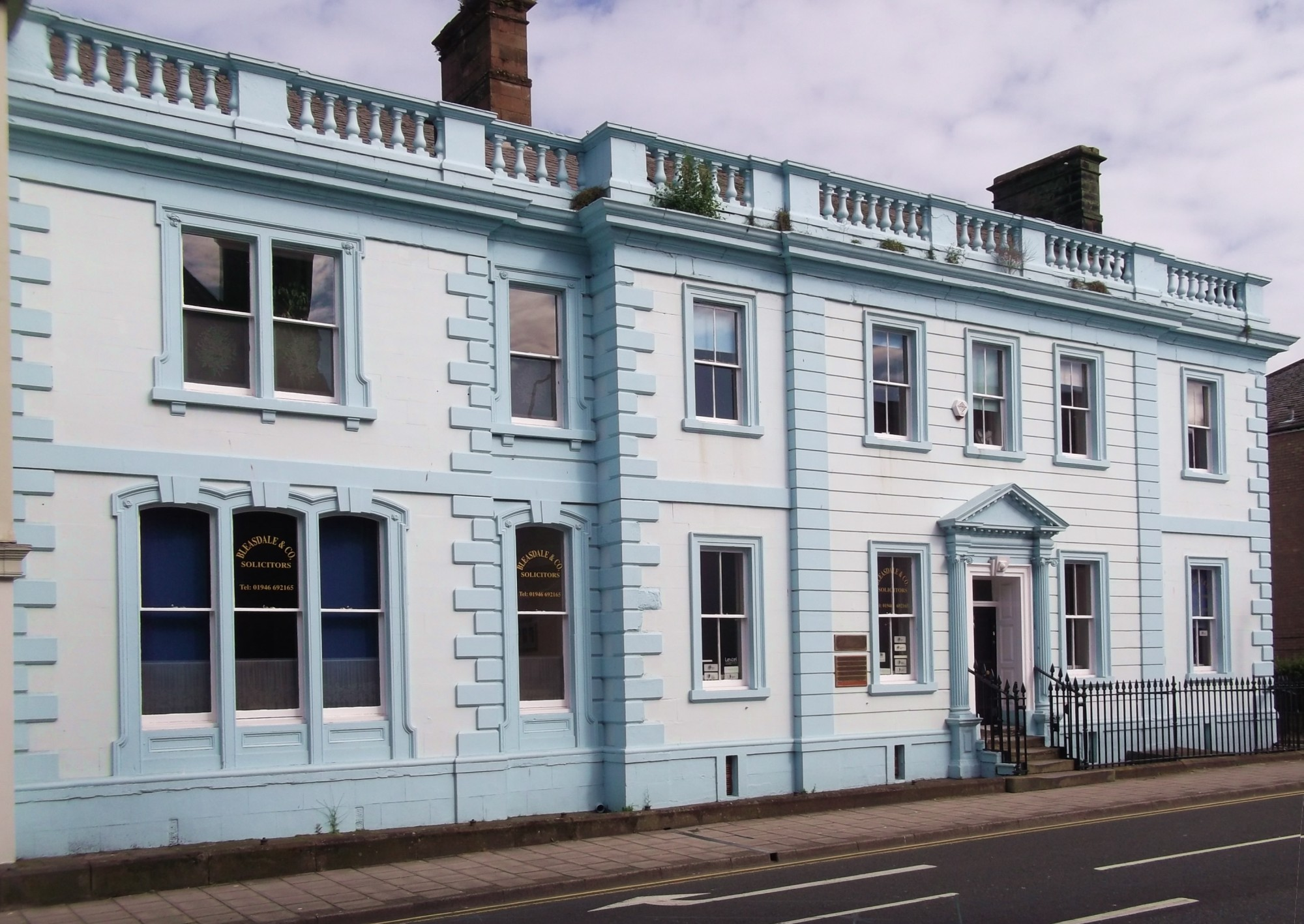 14 Scotch Street, Whitehaven Cumbria (in 2014, offices for Bleasdale & Co., solicitors)